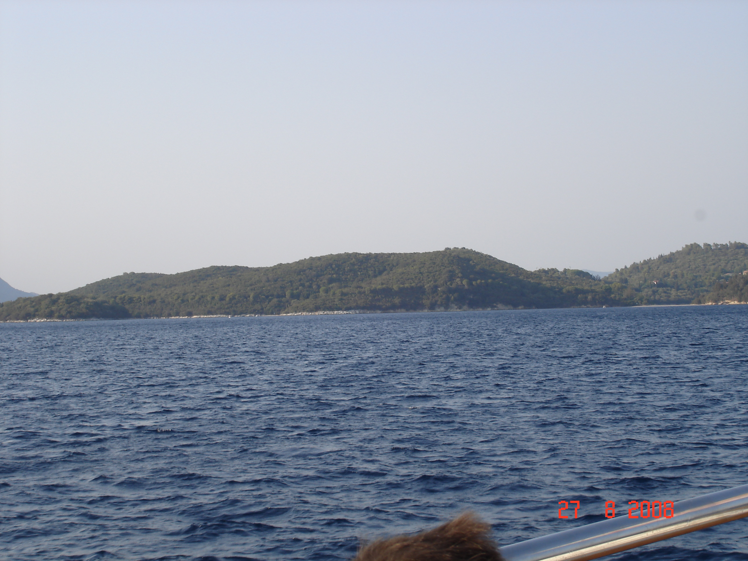 Scorpios, greek private island in Greece